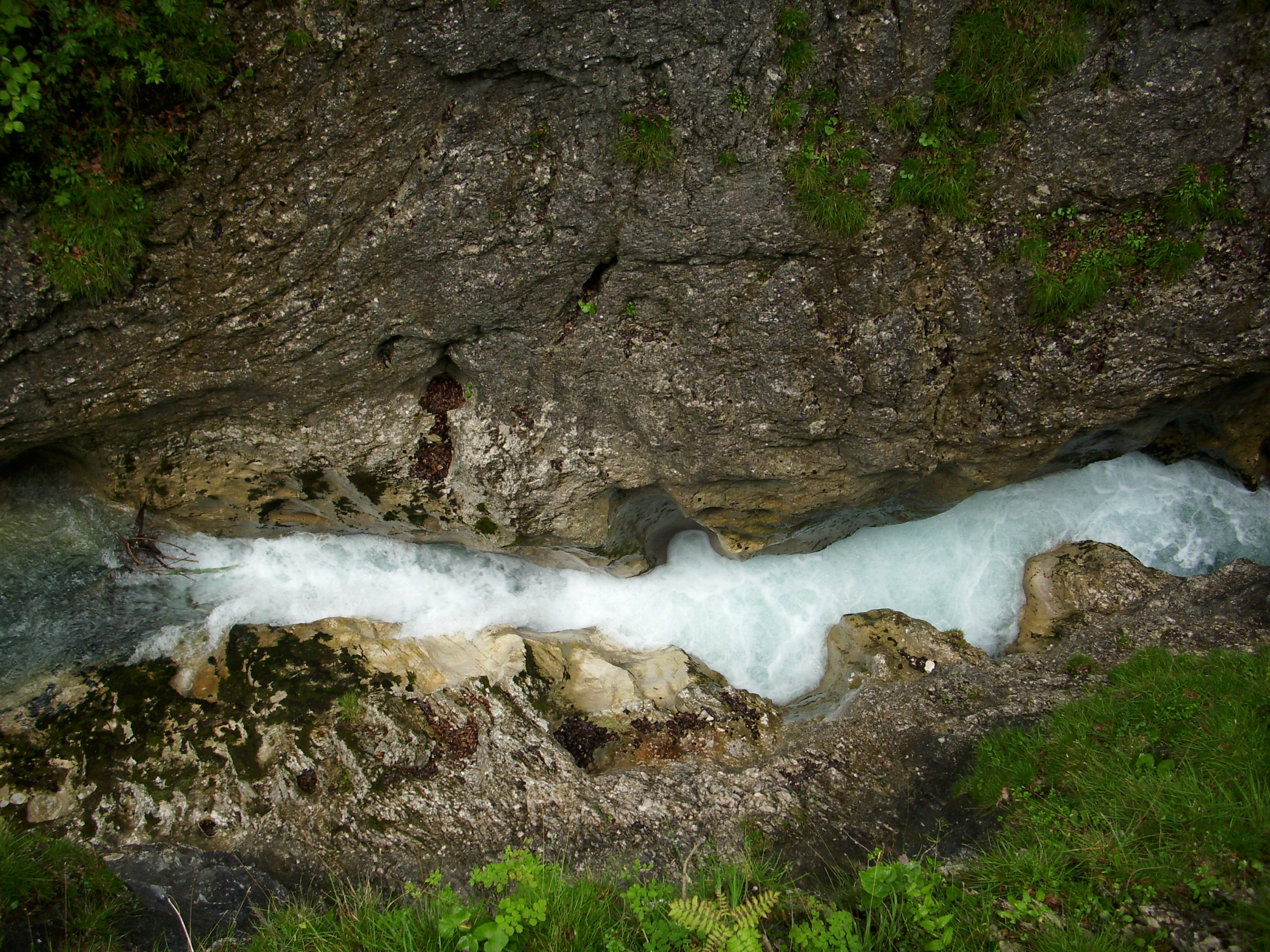 "Geisterklamm" near Mittenwald (Germany) and Unterleutasch (Austria)